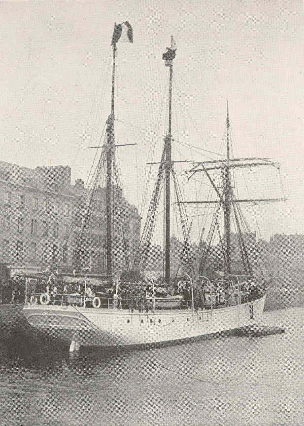 Subject: Sailing ships, Francais (Ship) Tag: Vessels